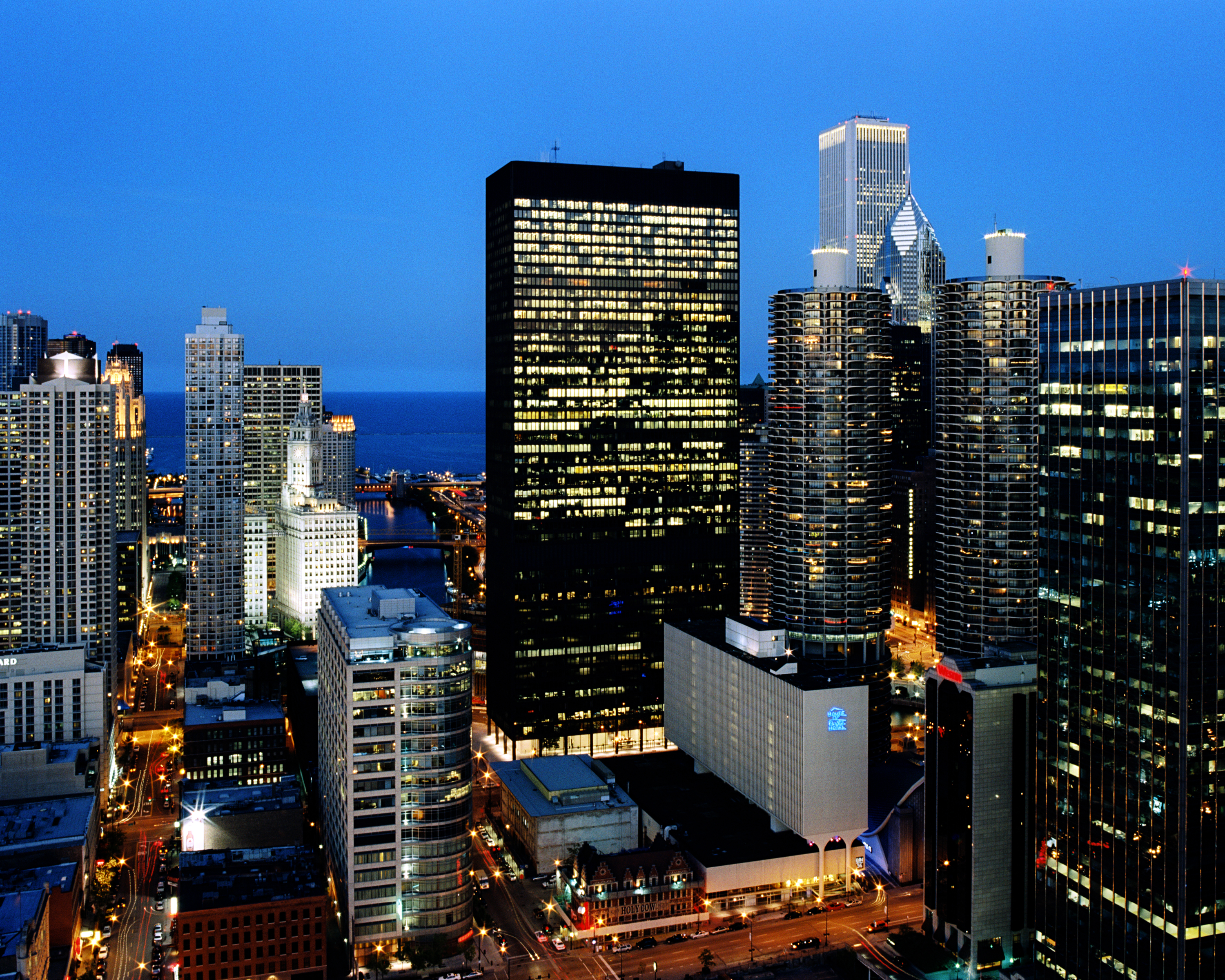 River North zone of Chicago. Wrigley Building at left. 330 North Wabash in center. At right, Marina City complex, Westin Chicago River North, and 321 North Clark. Aon Center and Two Prudential Plaza in background. Lake Michigan in distance.